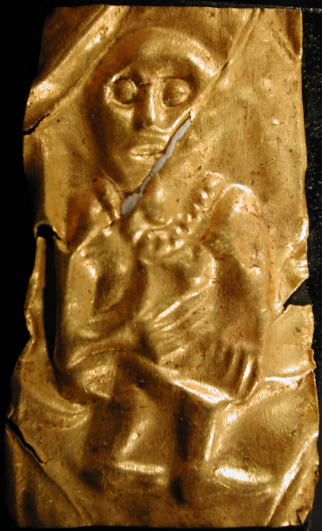 [D-II-1] a guldgubber depicting a wraith holding its hand on its chest. It is wearing a neckklace made of beads